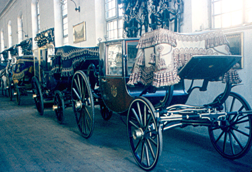 Carriages in the carriage museum ("Wagenburg"') at Schönbrunn Palace.